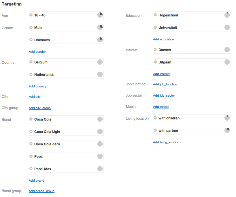 An example of targeting parameters for an on-line ad